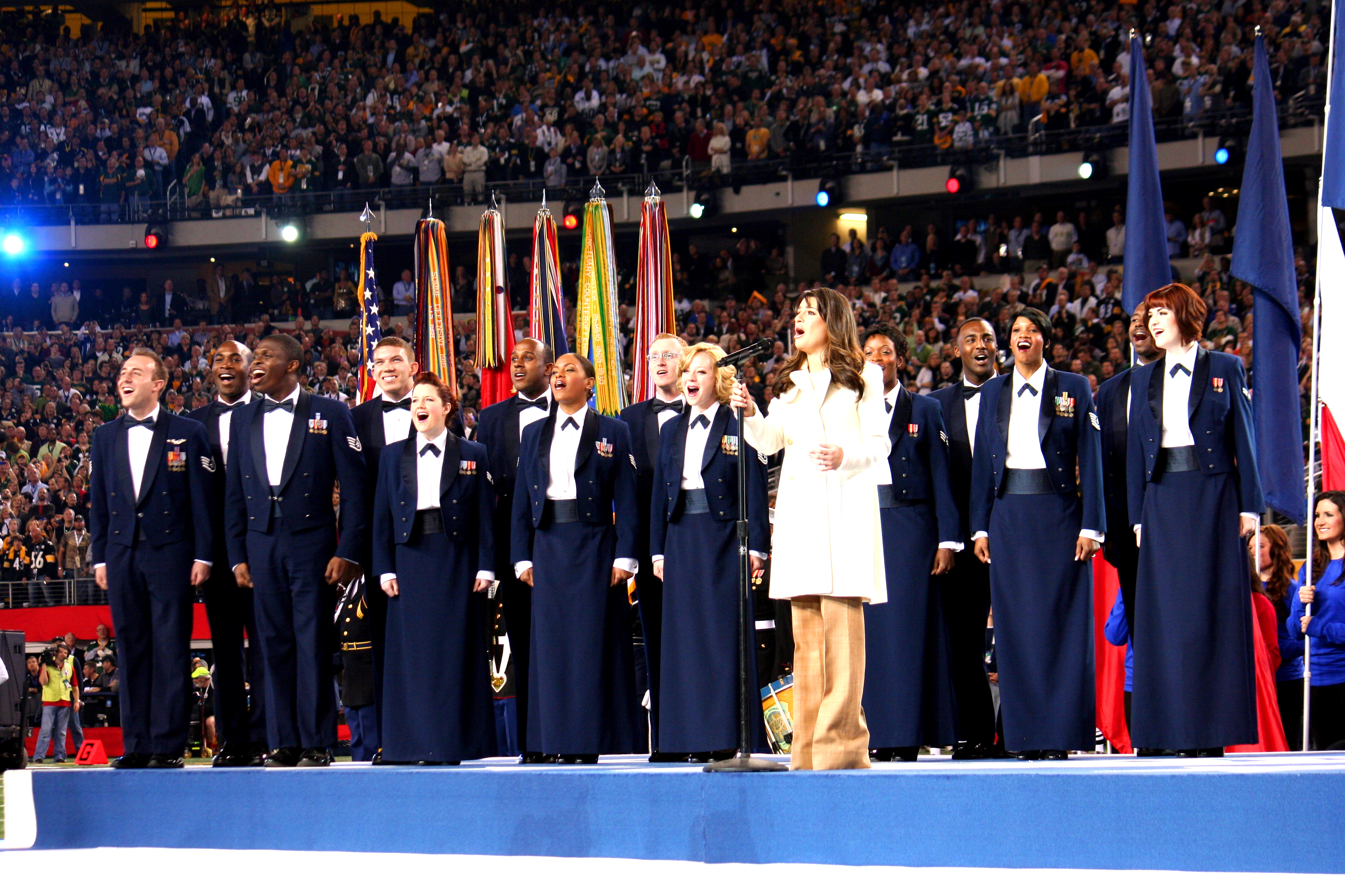 The U.S. Air Force Tops In Blue accompany singer Lea Michele, star of the Fox television series, "Glee," during the performance of "America the Beautiful" as part of the pre-game ceremony for Super Bowl XLV at Cowboys Stadium in Arlington, Texas.